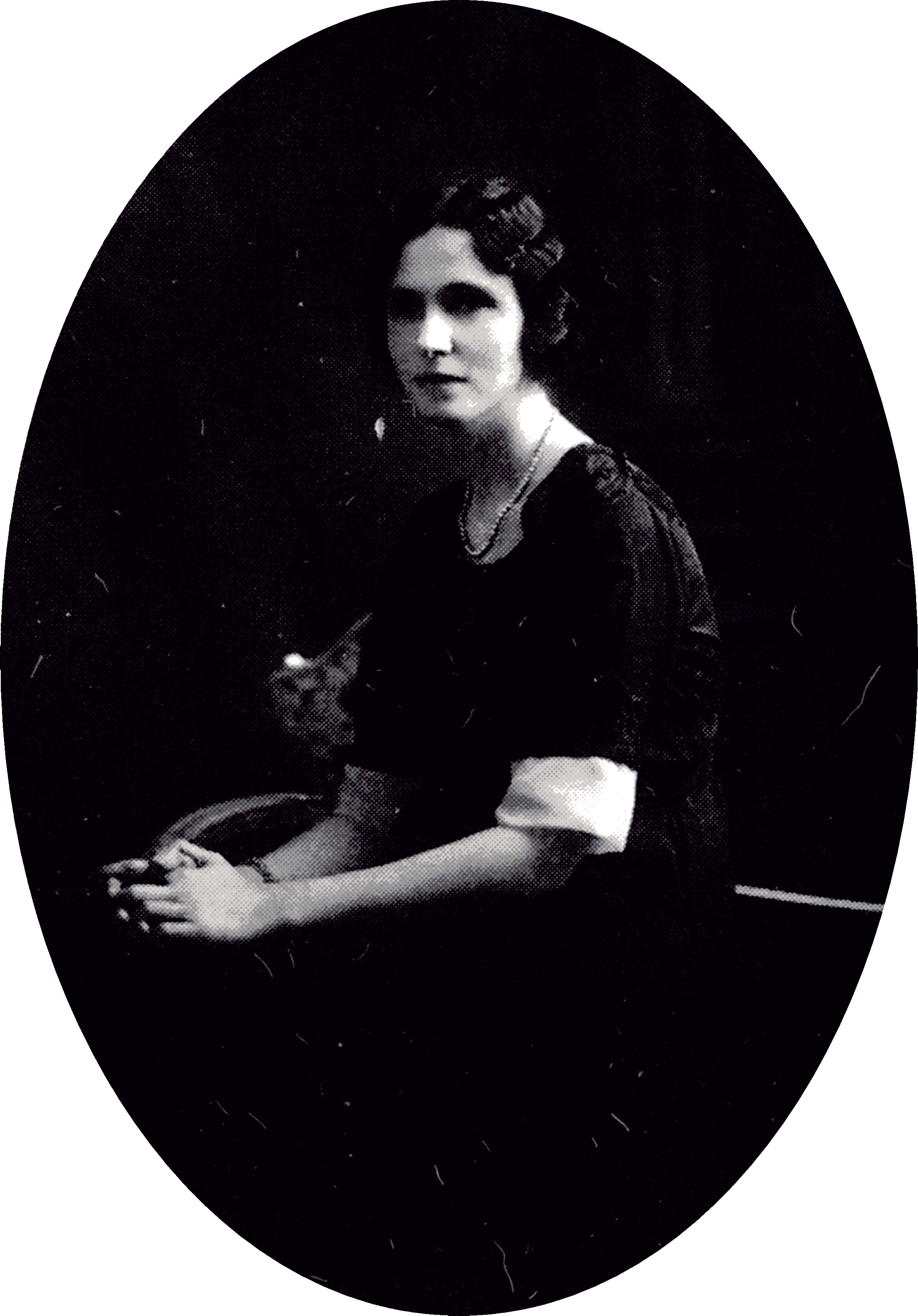 Delfina Bunge de Gálvez, argentine writer, 1881-1952.